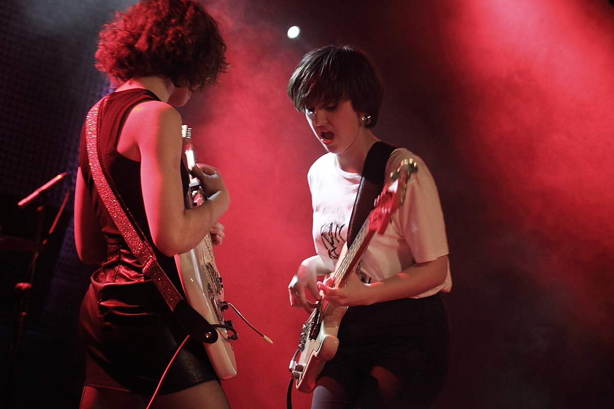 Laia Alsina and Laia Martí in concert with The Crab Apples, at Sala Bikini on 25 February 2017.